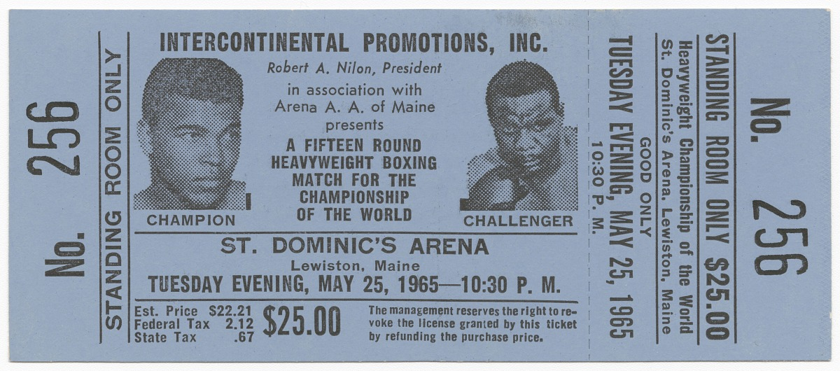 SCP Sports Mid-Summer Auction 2013 Collection410-1949 BOWMAN #224 SATCHELL PAIGE VG PSA 3425-1952 TOPPS #261 WILLIE MAYS VG PSA 3442-1954 TOPPS #128 HANK AARON ROOKIE VG+ PSA 3.5635-GEORGE GERVIN GAME WORN AND SIGNED NIKE AIR SHOE (FICKE LOA)641-KARL MALONE GAME WORN AND SIGNED CONVERSE CONS SHOES (FICKE LOA)645-BO JACKSON GAME WORN AND SIGNED NIKE TURF SHOES (FICKE LOA)743-1960'S HARLEM GLOBETROTTER'S SHOOTING SHIRT768-1980'S CURLY NEAL HARLEM GLOBETROTTERS GAME USED JERSEY952-1965 WILLIE MAYS SAN FRANCISCO GIANTS ADIRONDACK ALL STAR GAME USED BAT (MEARS A8)954-1964-72 FRANK ROBINSON SIGNATURE MODEL R161 GAME USED BAT (CRACKED)1127-1988 SUPER BOWL XXII (WASHINGTON REDSKINS - DENVER BRONCOS) FULL UNUSED TICKET MINT PSA 91185-LOT OF JOE LOUIS PHOTOGRAPHS AND EPHEMERA INCL. 1953 MOVIE WINDOW CARD AND 1981 FUNERAL PROGRAM1189-1965 MUHAMMAD ALI VS SONNY LISTON BOXING FULL TICKET BLUE VARIATION PSA NM 71197-EVANDER HOLYFIELD FIGHT WORN TRUNKS VS. ADILSON RODRIGUES JULY 15, 1989 (HOLYFIELD COLLECTION)February 20, 2014 - 2013.120.7 and 2013.120.8 were moved to C 44, SH-2 by Kimberly KronwallApril 15, 2014: 2013.120.9-.10 found in C-4, SH-3; 2013.120.6ab found in C-41, SH-3, 2013.120.4&.5ab found in C-41, SH-5 (lfm)